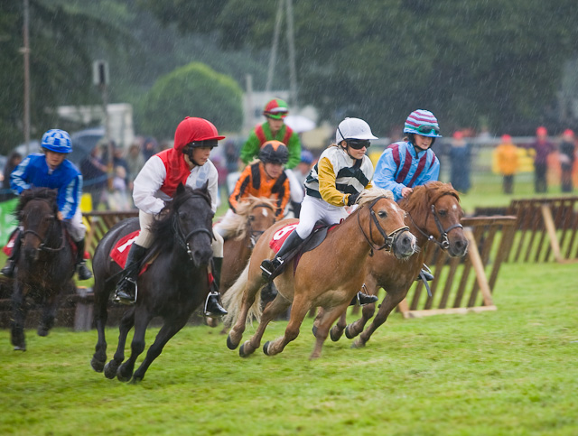 Shetland Pony Grand National, Somerley Park The race held at 16:11 in the main ring during the Ellingham Show. It was pouring with rain.